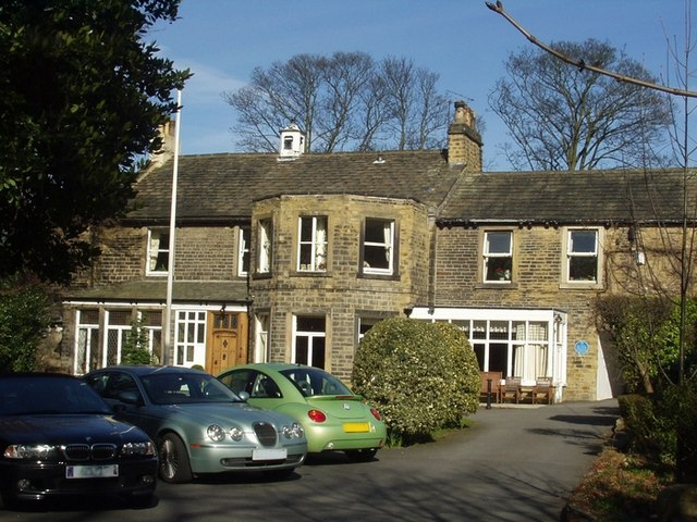 Headingley Hall, Shire Oak Road. Headingley Hall is a residential care home and apartments for older people. Its history may go back 1000 years - the blue plaque on the wall at the right says “The medieval manor house of Headingley almost certainly stood here. The Hall was rebuilt in the 17th Century and 1831-6. Residents included John Killingbeck, Mayor of Leeds 1677, George Hayward, Land Agent of the Earl of Cardigan, and his son George J.W. Hayward, born here 1839, intrepid explorer in Central Asia.”